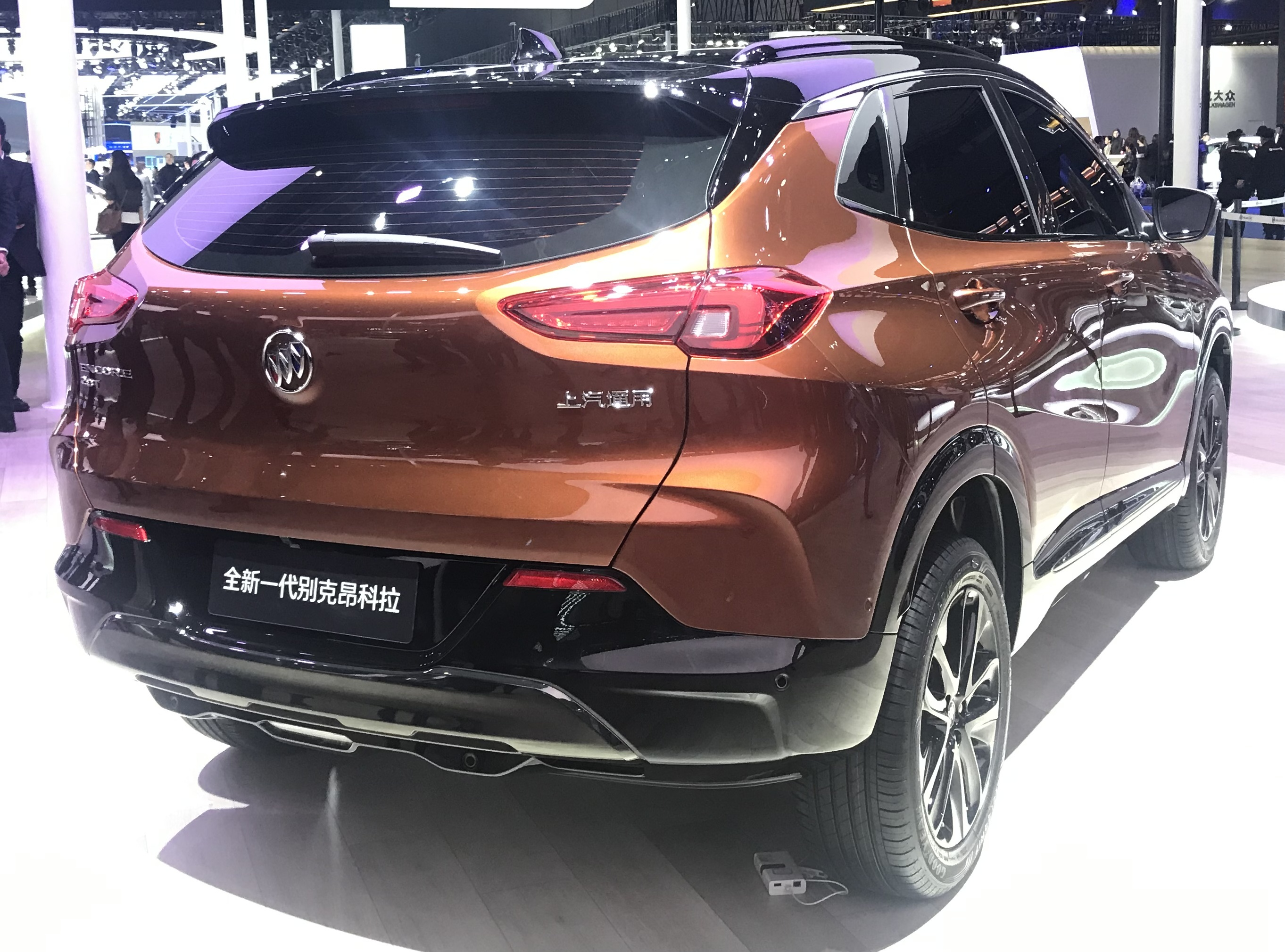 Second generation Buick Encore